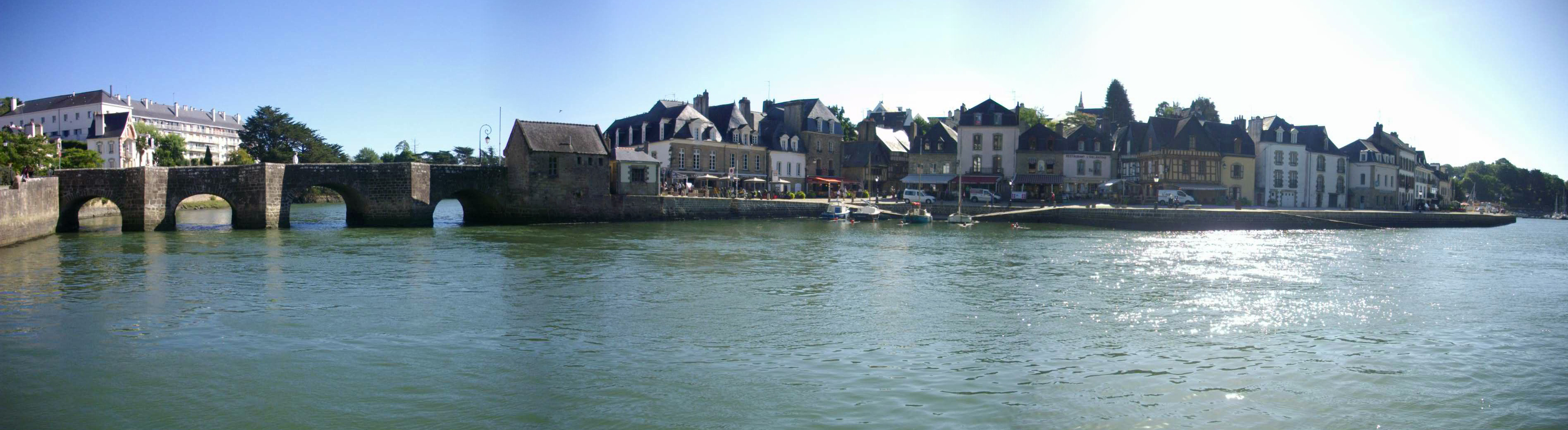 Stone bridge and Saint-Goustan harbour in Auray, Morbihan, France